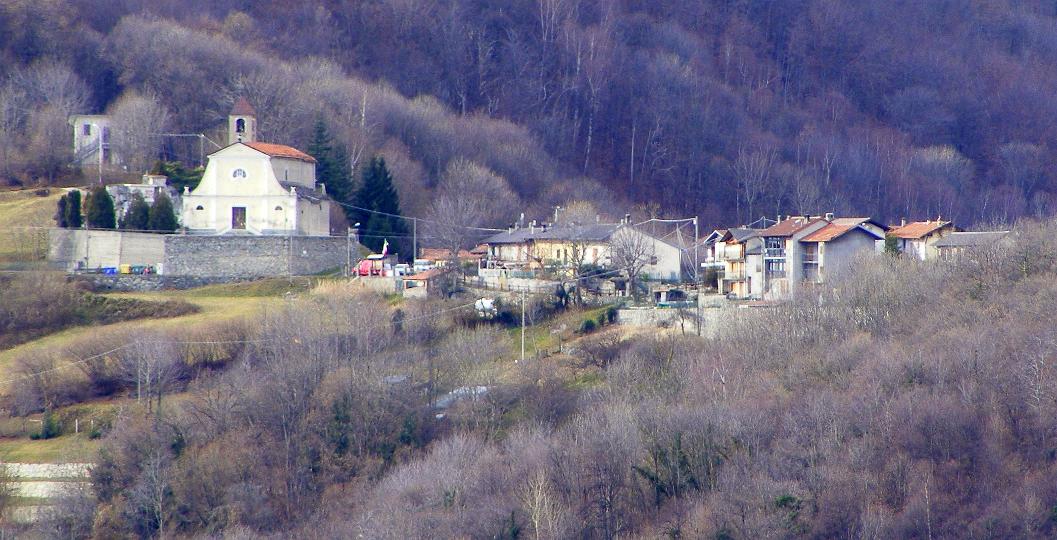 Frassinere (Condove, TO, Italy): panorama from Audani